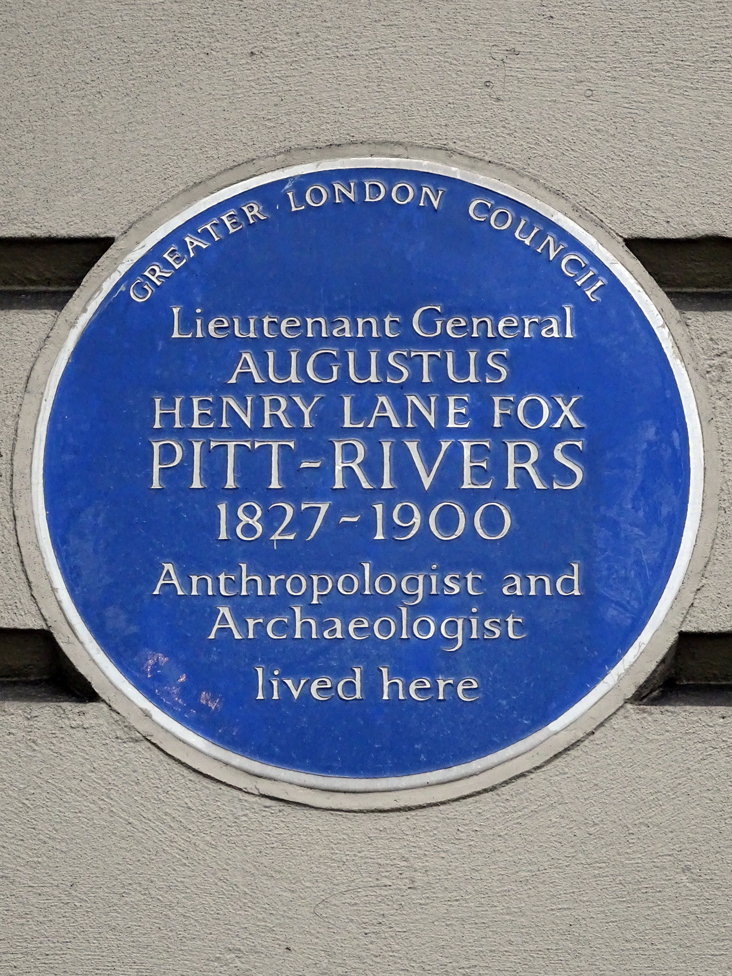 Blue plaque erected in 1983 by Greater London Council at 4 Grosvenor Gardens, Belgravia, London SW1W 0DH, City of Westminster